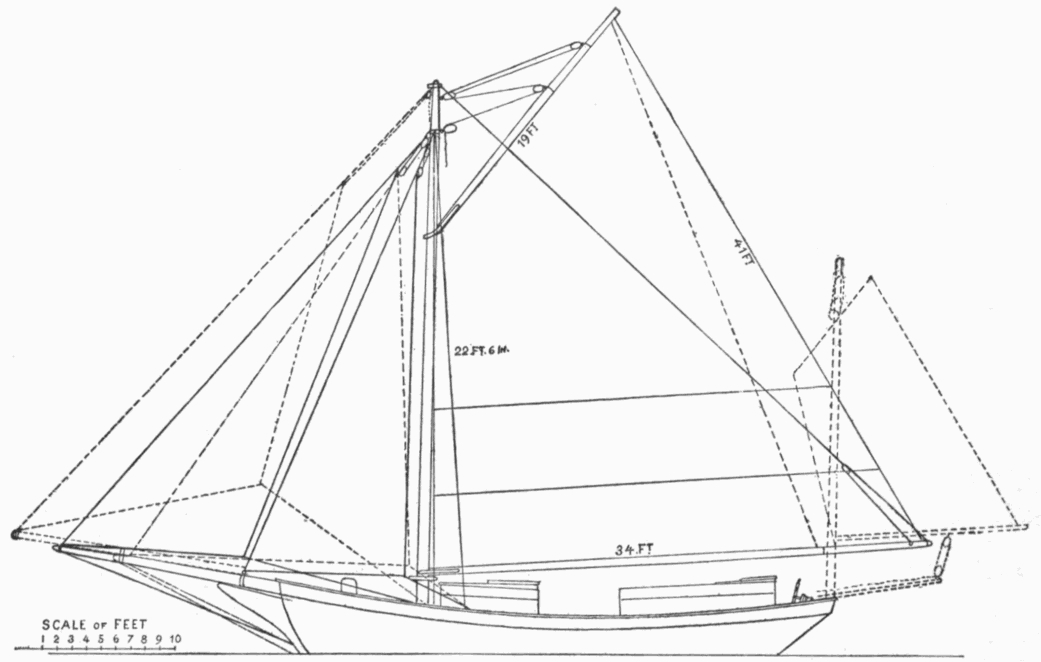 Sail-Plan of the Spray The solid lines represent the sail-plan of the Spray on starting for the long voyage. With it she crossed the Atlantic to Gibraltar, and then crossed again southwest to Brazil. In South American waters the bowsprit and boom were shortened and the jigger-sail added to form the yawl-rig with which the rest of the trip was made, the sail-plan of which is indicated by the dotted lines The extreme sail forward is a flying jib occasionally used, set to a bamboo stick fastened to the bowsprit. The manner of setting and bracing the jigger-mast is not indicated in this drawing, but may be partly observed in the plans on pages 287 and 289.